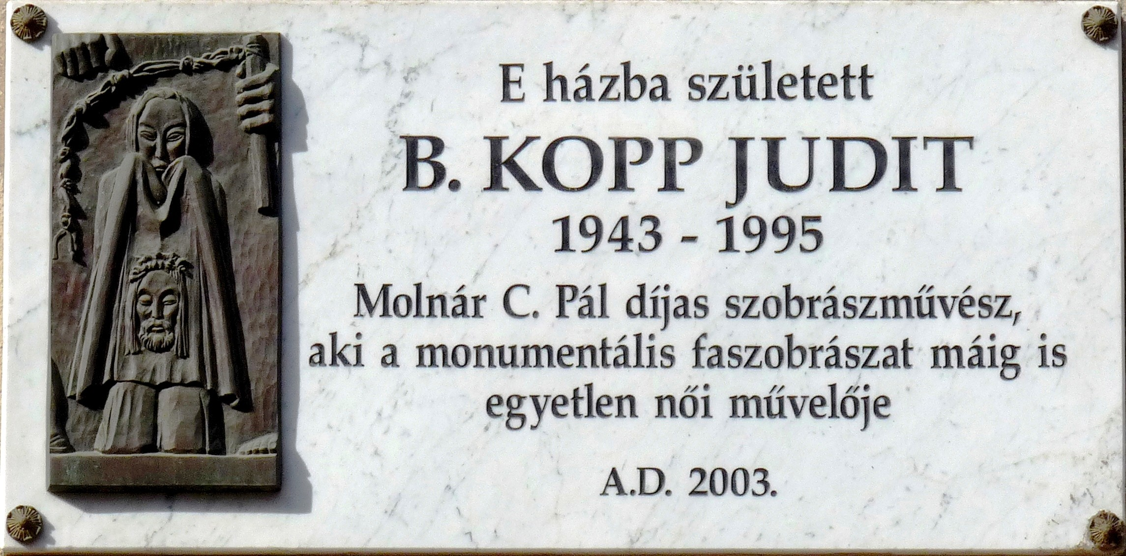 Judit B. [Bittsánszky]. Kopp commemorative plaque in Budapest District VIII, Bródy Sándor Street No 2.